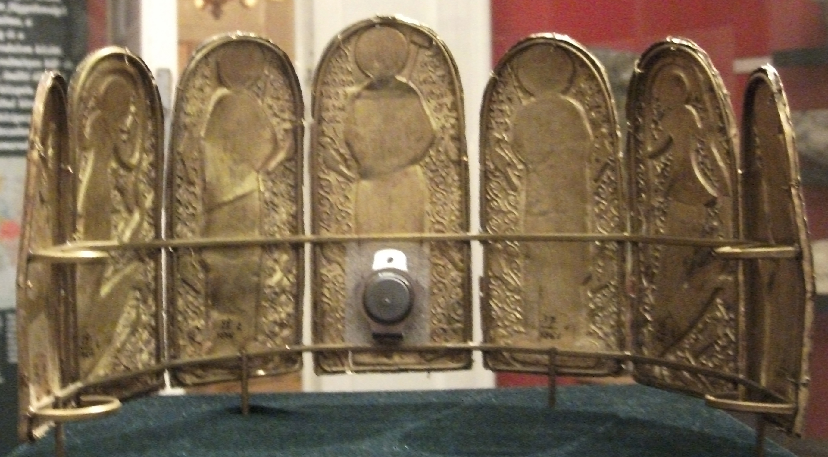 So-called Crown of Konstantinos IX Monomakhos, National Museum of Hungary, Budapest